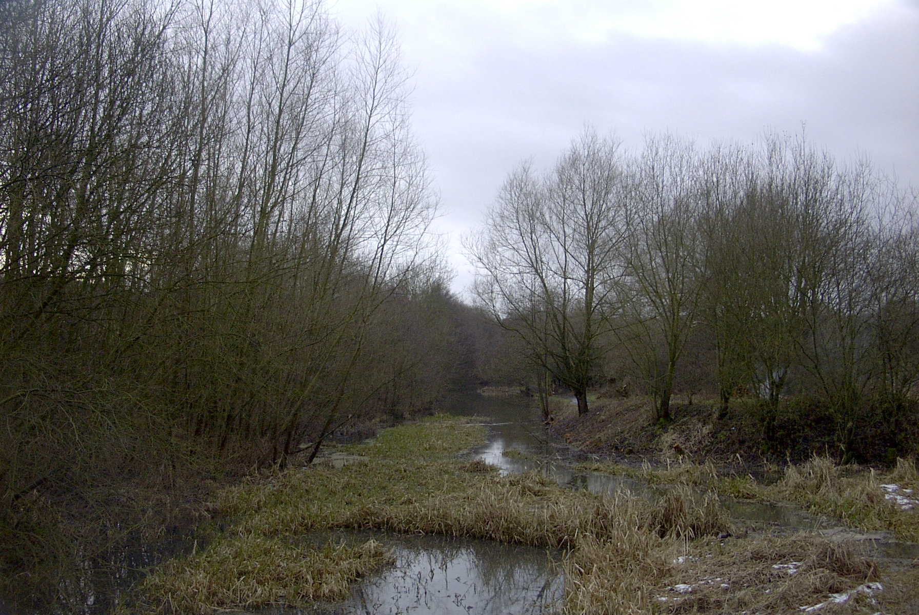 section of the cromford canal in shallow water. Not a very good photo though